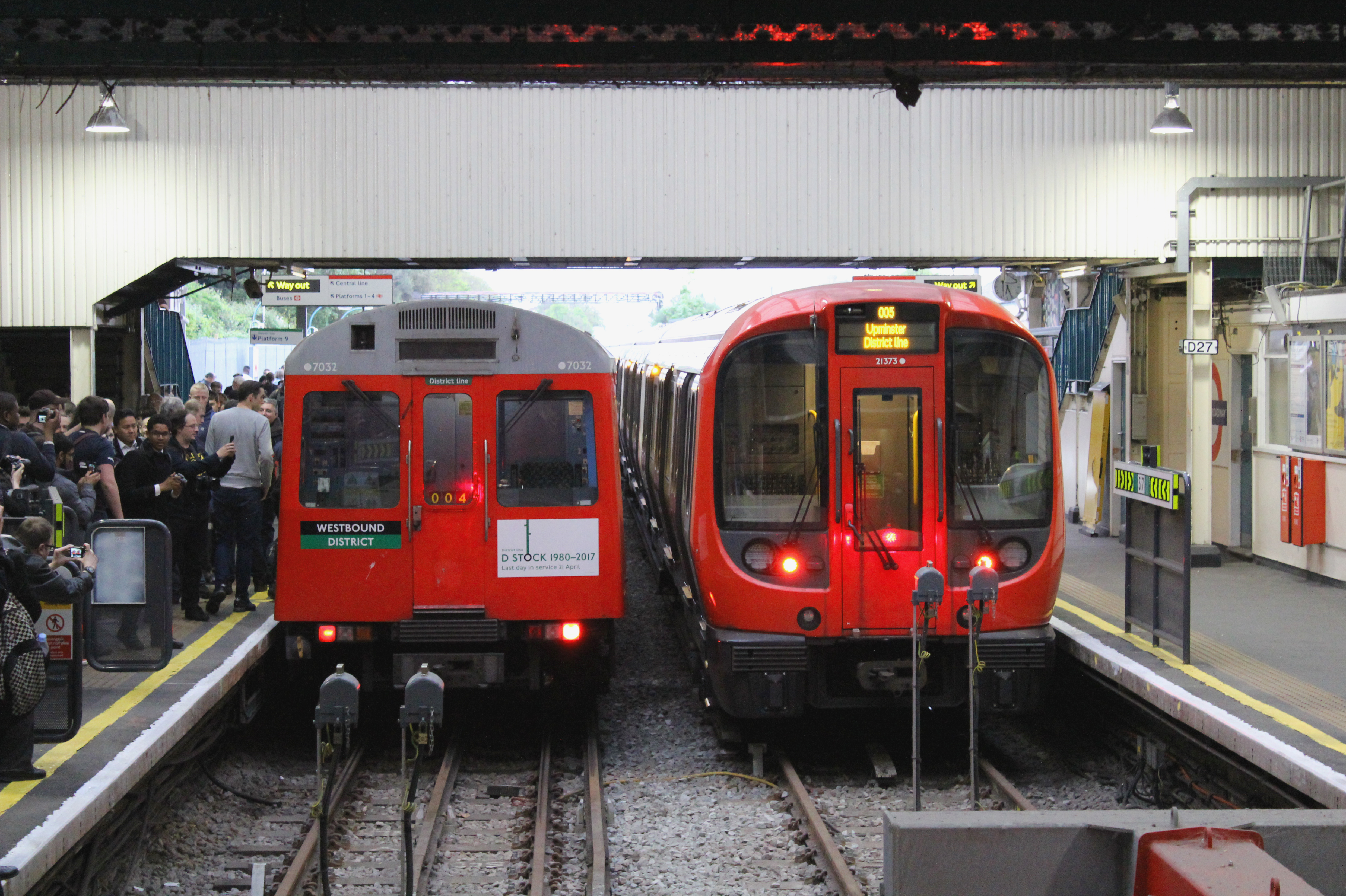 D Stock and S Stock side by side on last day of D Stock operation at Ealing Broadway station on April 21 2017.